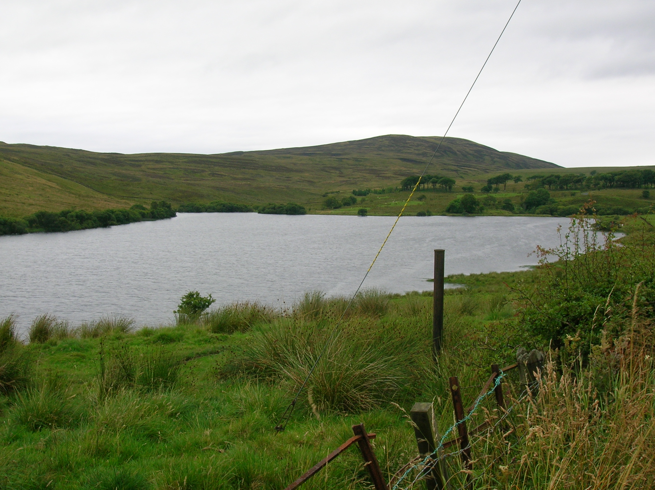 The Caaf Water Reservoir near Knockendon, North Ayrshire, Scotland